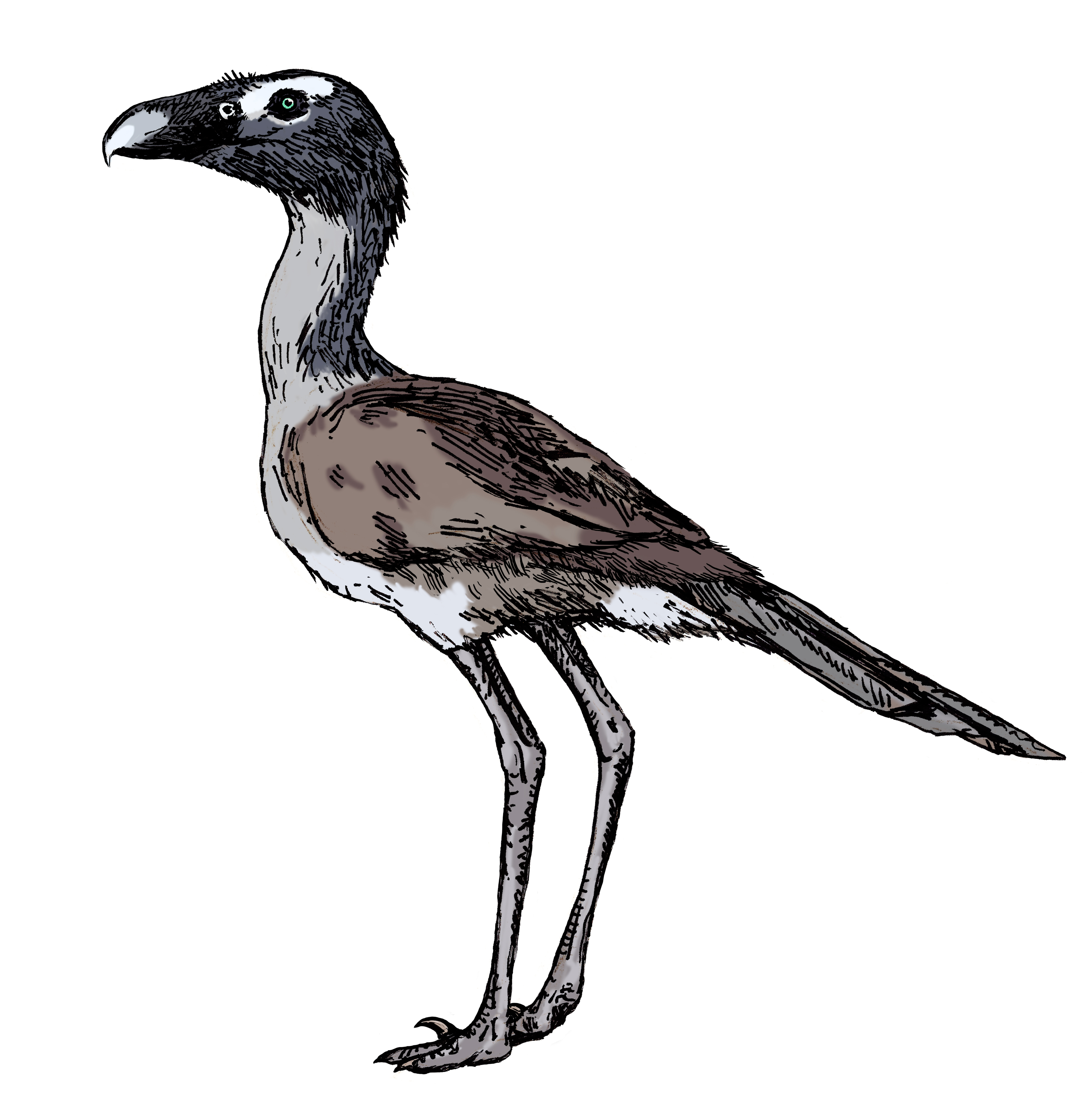 Life reconstruction of the terror bird Psilopterus lemoinei.